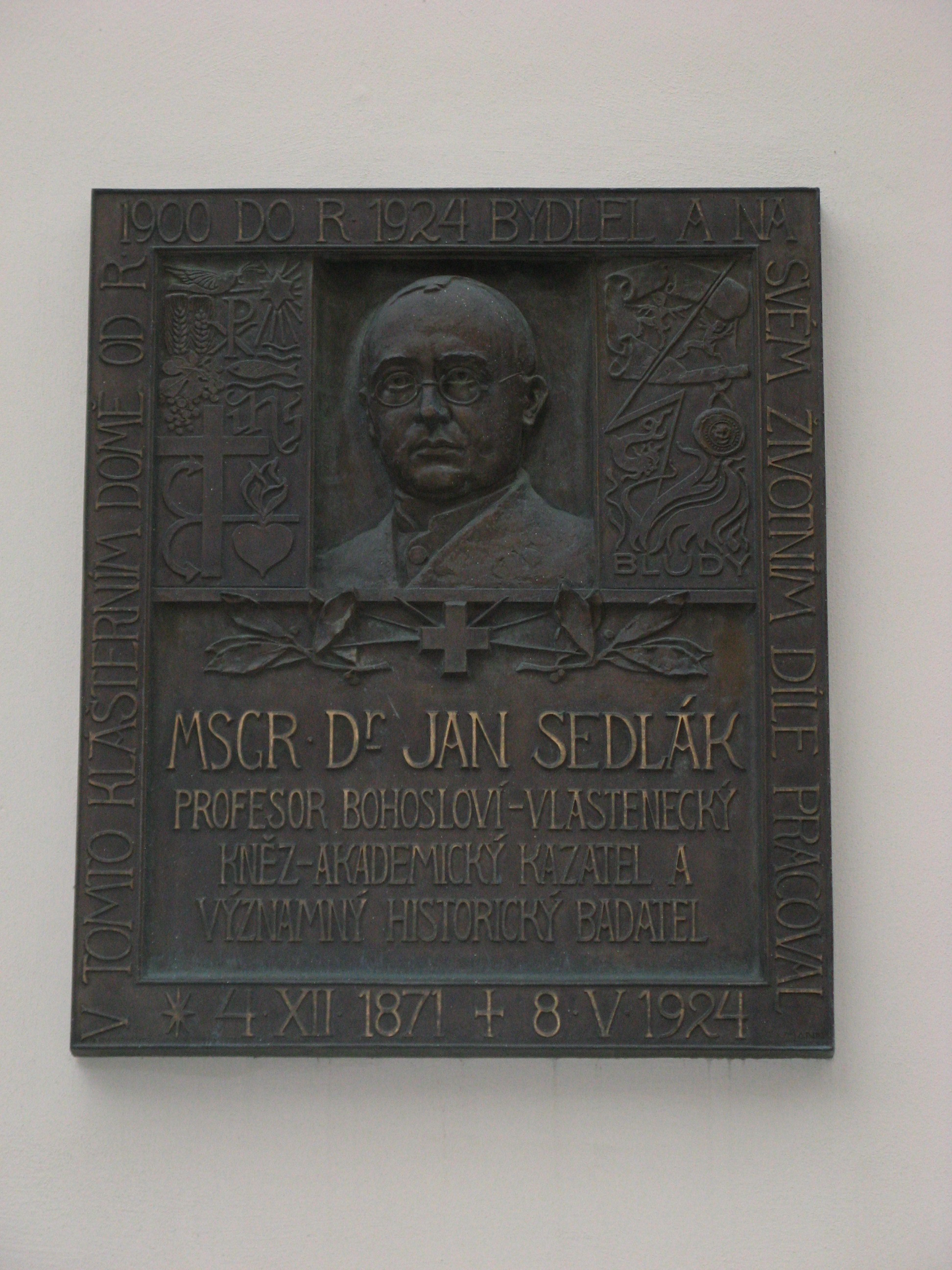 Jan Sedlák (1871-1924), Brno, Czech Republic